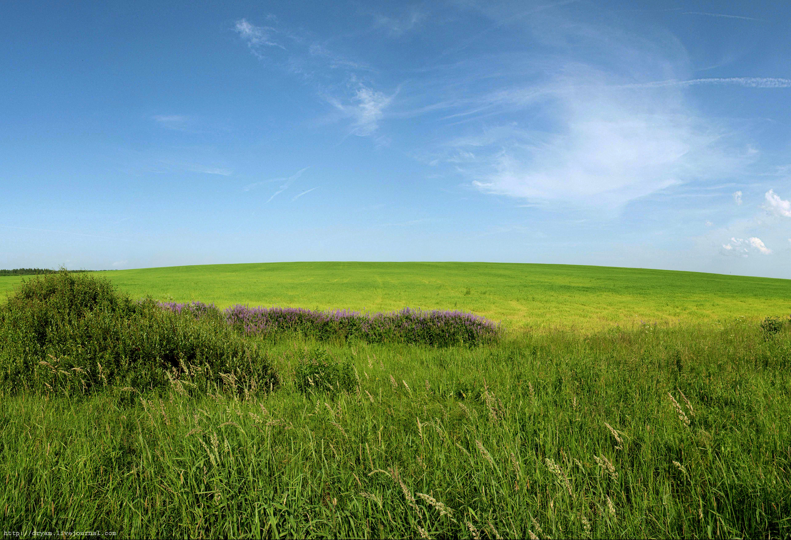 Bliss in Russia